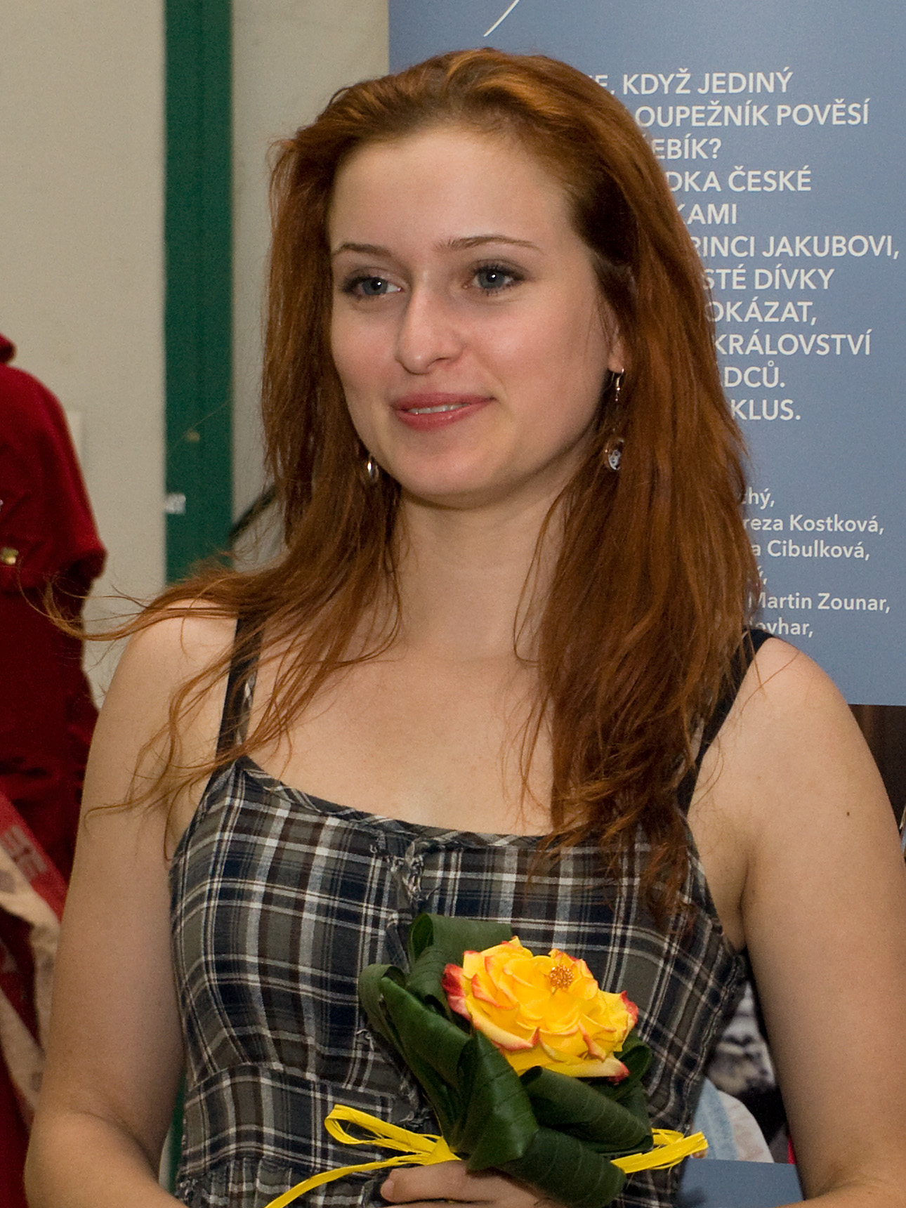 Czech actress Kamila Janovičová.